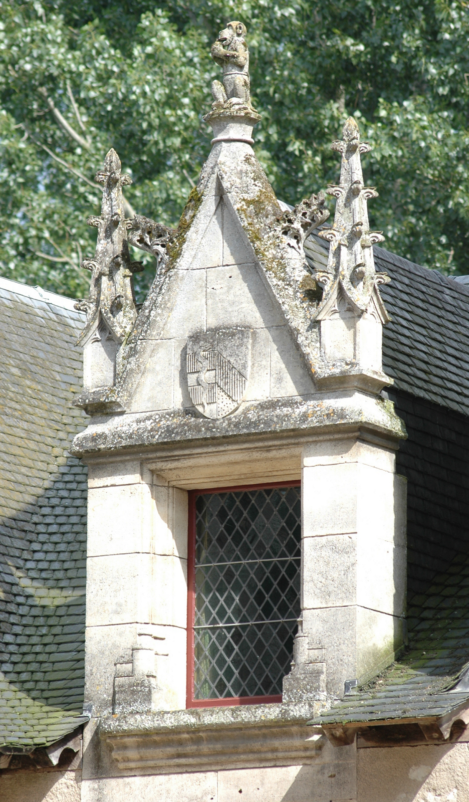 Château de Fougères-sur-Bièvre, dormer window at the south wing